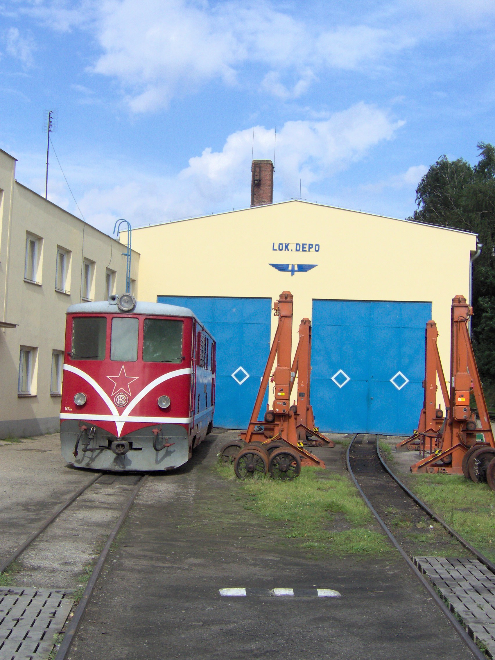 T 47.006 (705.906) diesel locomotive, Jindřichův Hradec, Jindřichův Hradec District, Czech Republic